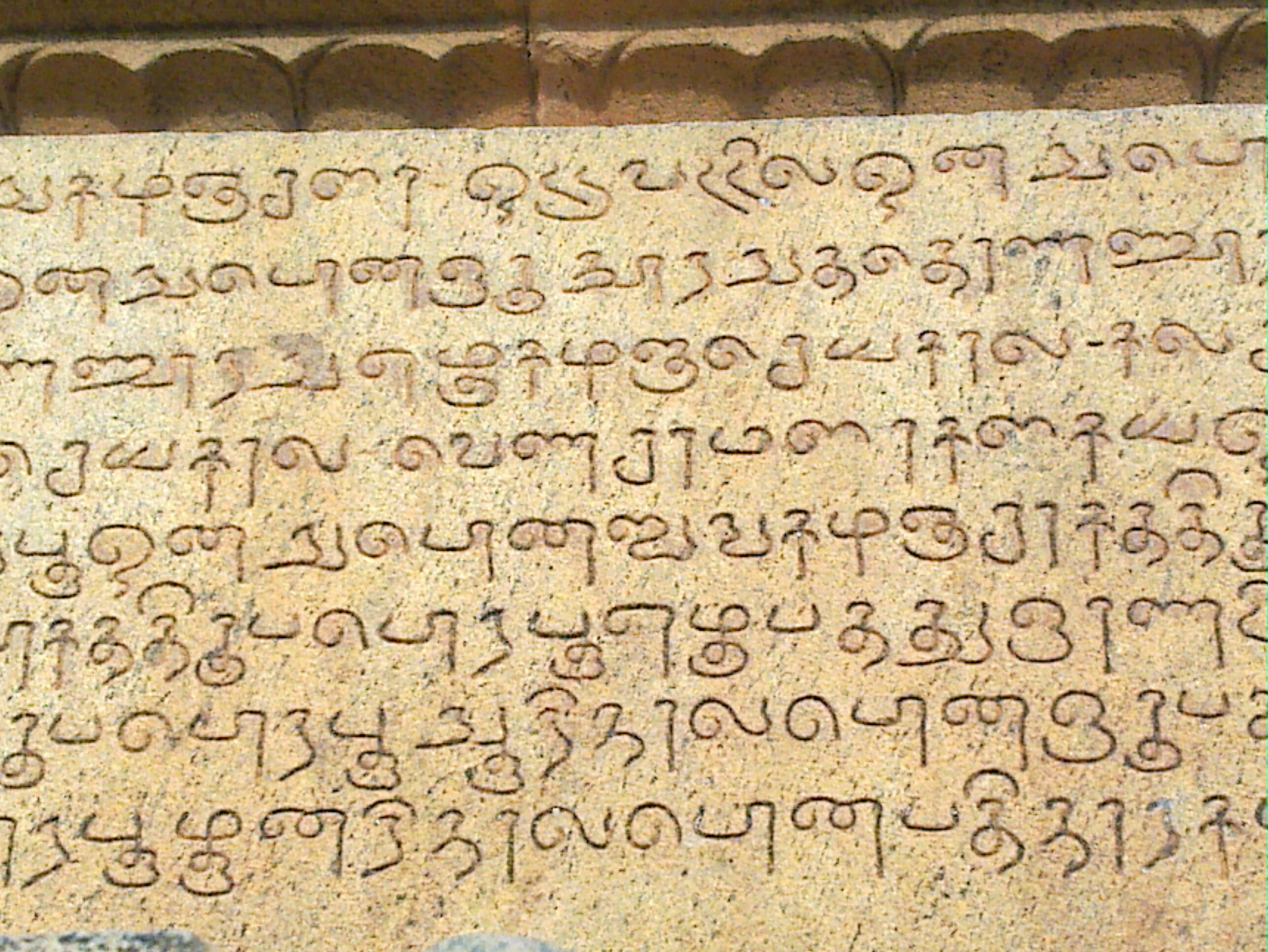 Stone inscriptions at Brihadeeswarar temple, Thanjavur, Tamil Nadu. It is in Vatteluttu script for Tamil language.